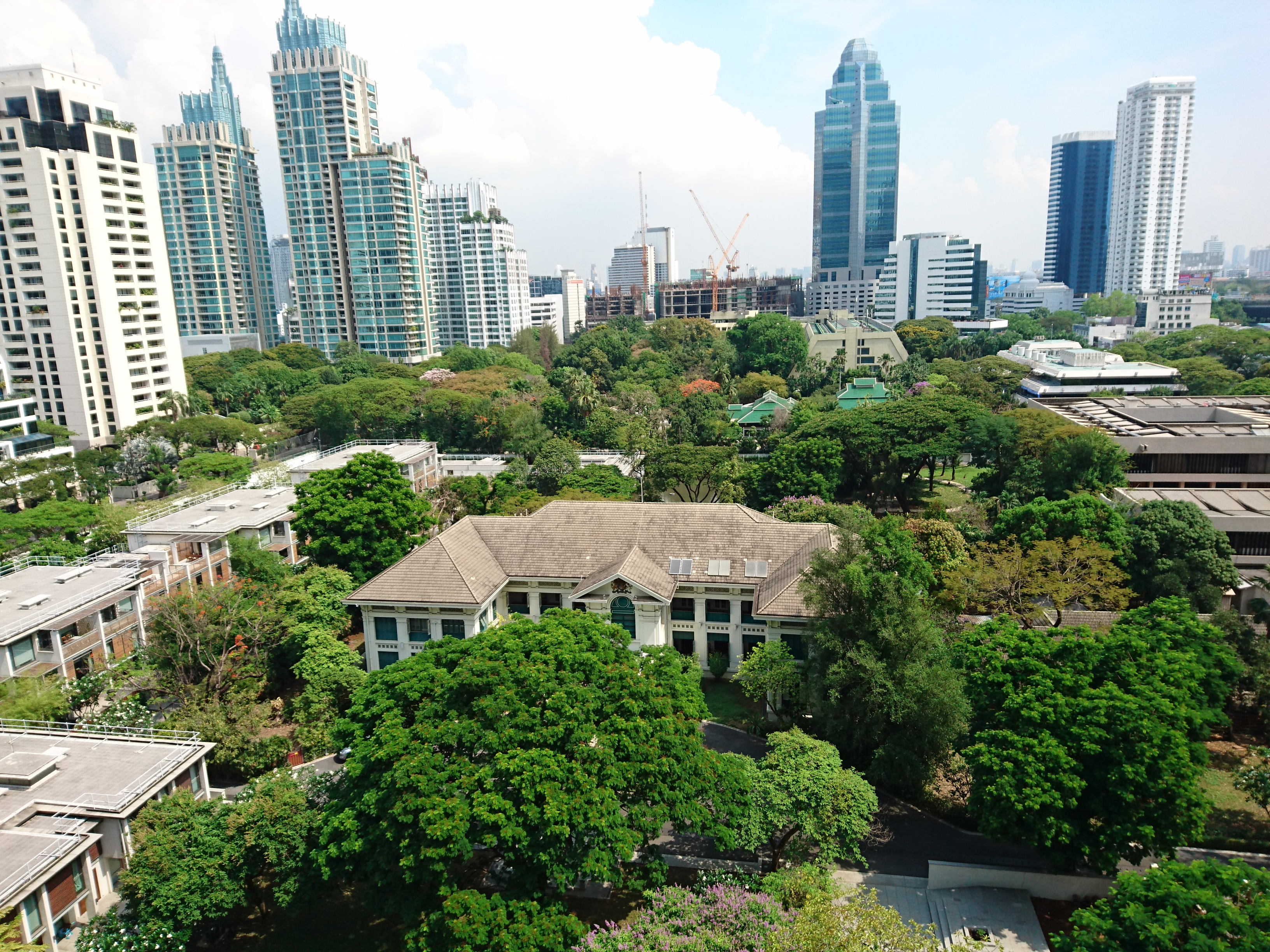 The British Embassy in Bangkok, taken from the Central Embassy shopping centre